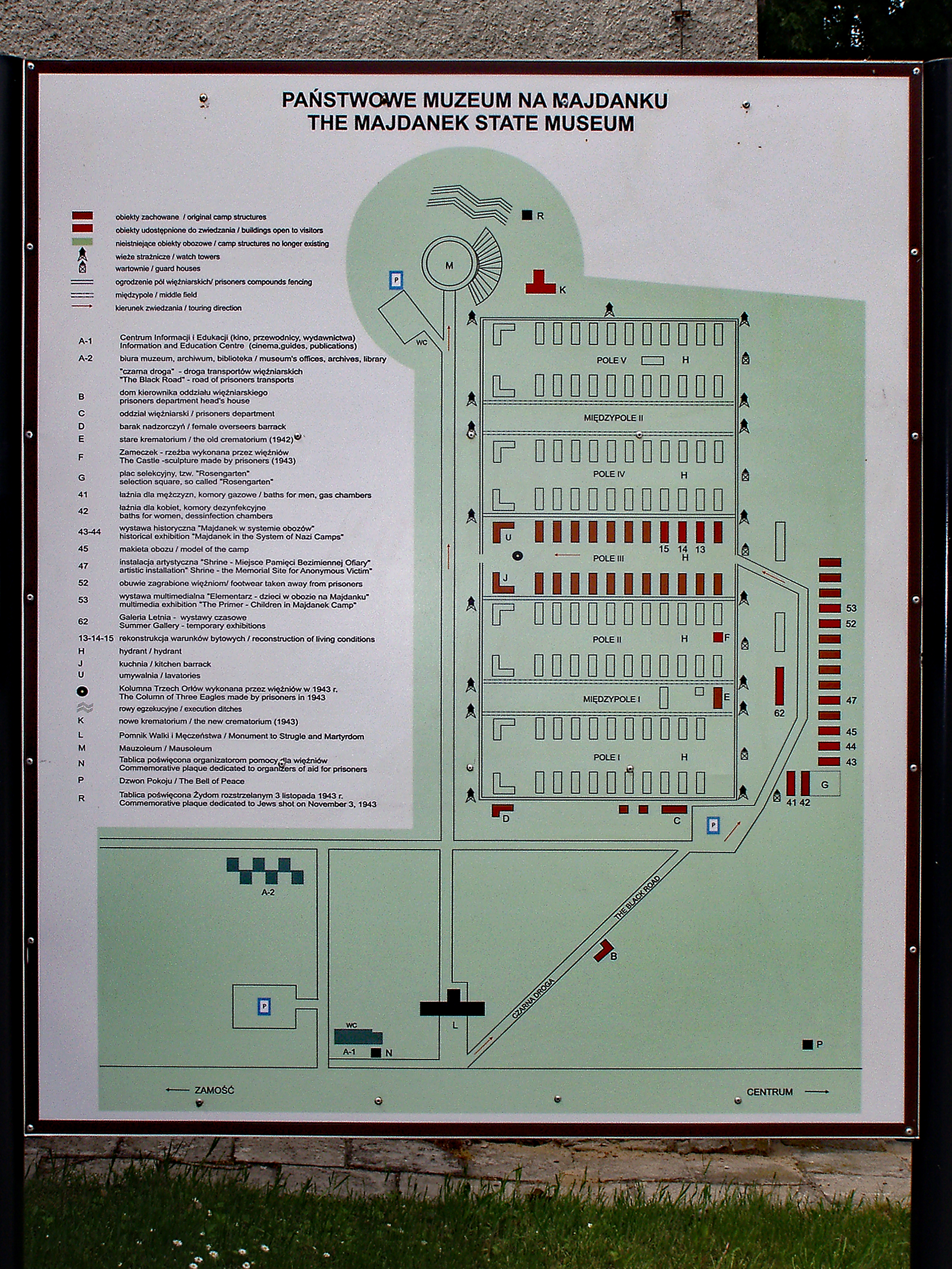 The State Museum KL Majdanek, information board with detailed map of all buildings and places of martyrdom of the victims of the concentration camp.